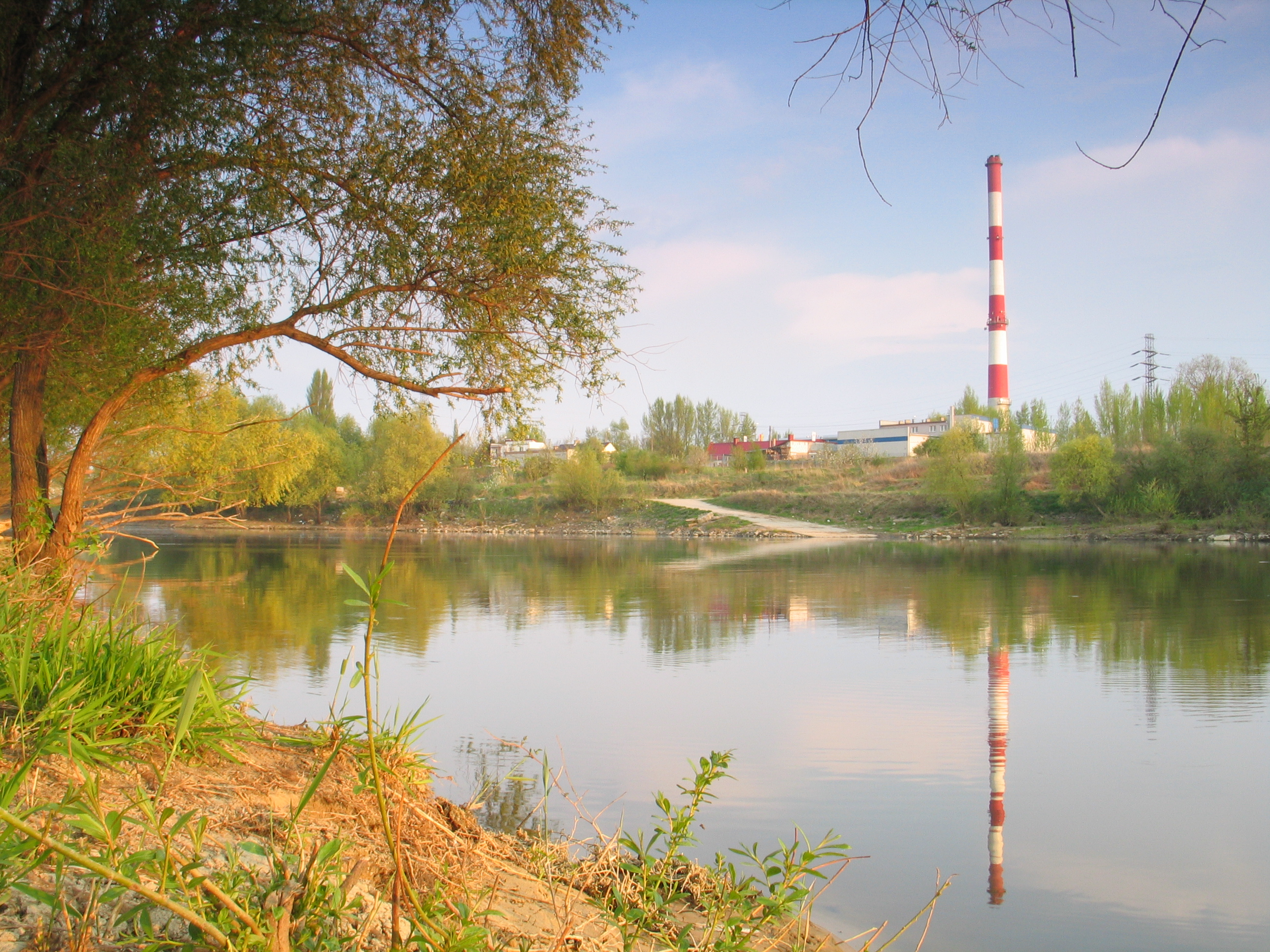 remains of the old port, Włocławek, Poland